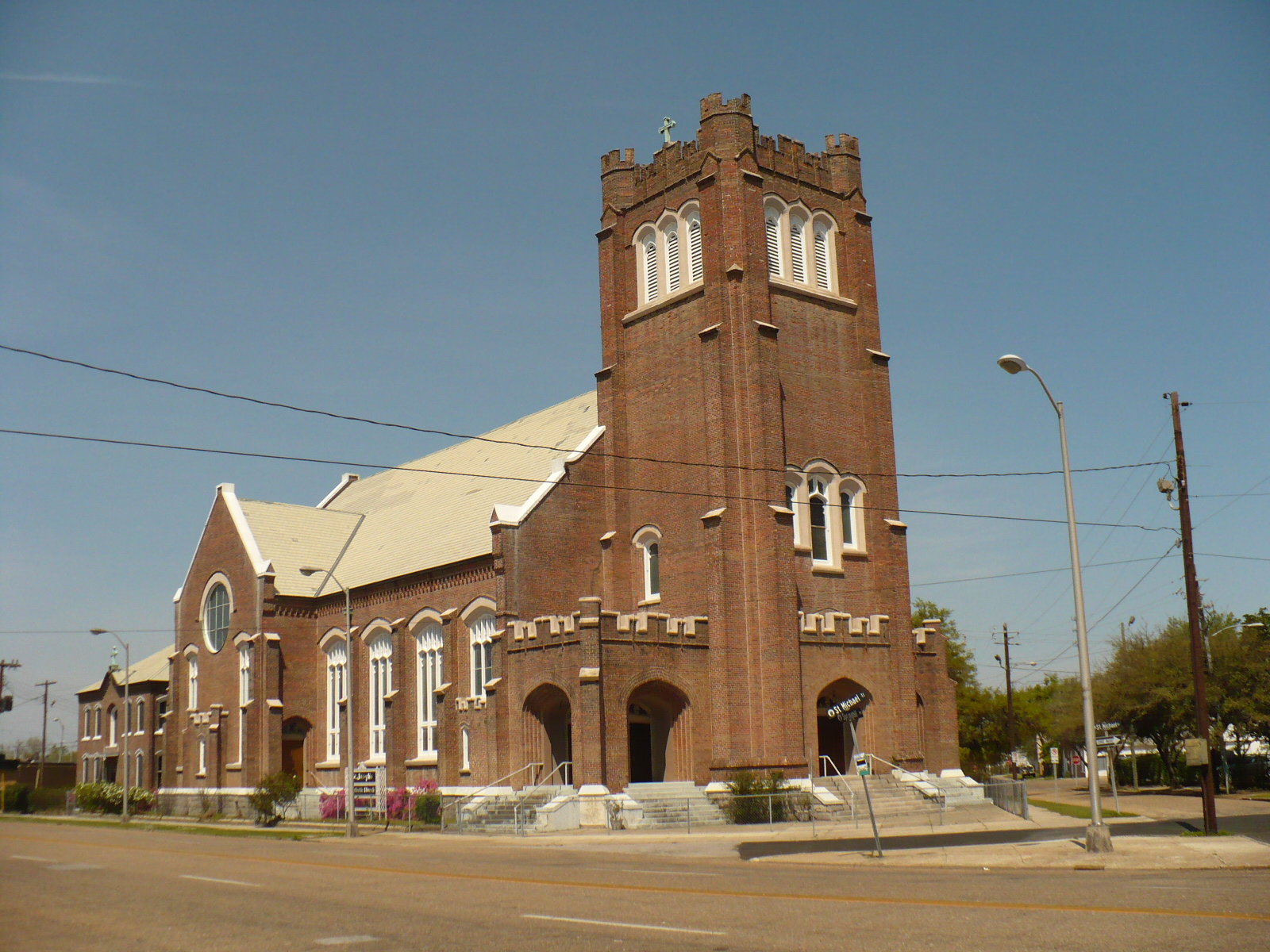 St. Joseph's Roman Catholic Church in Mobile, Alabama. Part of the Historic Roman Catholic Properties multiple properties listing with the National Register of Historic Places.